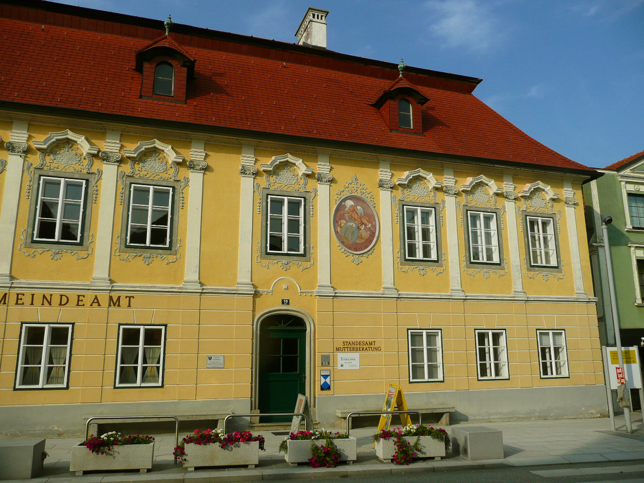 Right part of the Town Hall